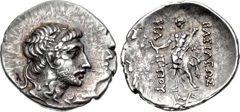 KINGS of MACEDON. Philip VI Andriskos. 149-148 BC. AR Drachm (21mm, 3.35 g, 12h). Diademed head right, wearing a slight beard / BAΣIΛEΩΣ ΦIΛIΠΠOY, Herakles, nude, standing left, holding rhyton in his right hand and club in his left, lion's skin hanging on left arm. Zhuyuetang 119 = Triton III, lot 397 (same obv. die); Berk BBS 127, lot 147 (overstruck on Thessalian League drachm). Good VF, lightly toned, overstruck on a Roman Republican denarius of C. Terentius Lucanus (Terentia 10; Crawford 217/1) with bold traces of undertype still visible including the head of Roma, the Dioscuri, and traces of the moneyer's name [TER] LV[C]. Extremely rare, the third known specimen.